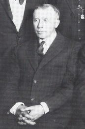 Photo of Baseball Hall of Famer J.L. Wilkinson, founder of the Kansas City Monarchs. Detail from a photograph of the Negro National League annual meeting held in Chicago, January 28, 1922.